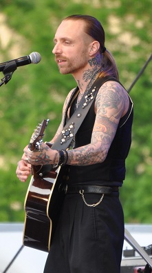 Nicke Borg